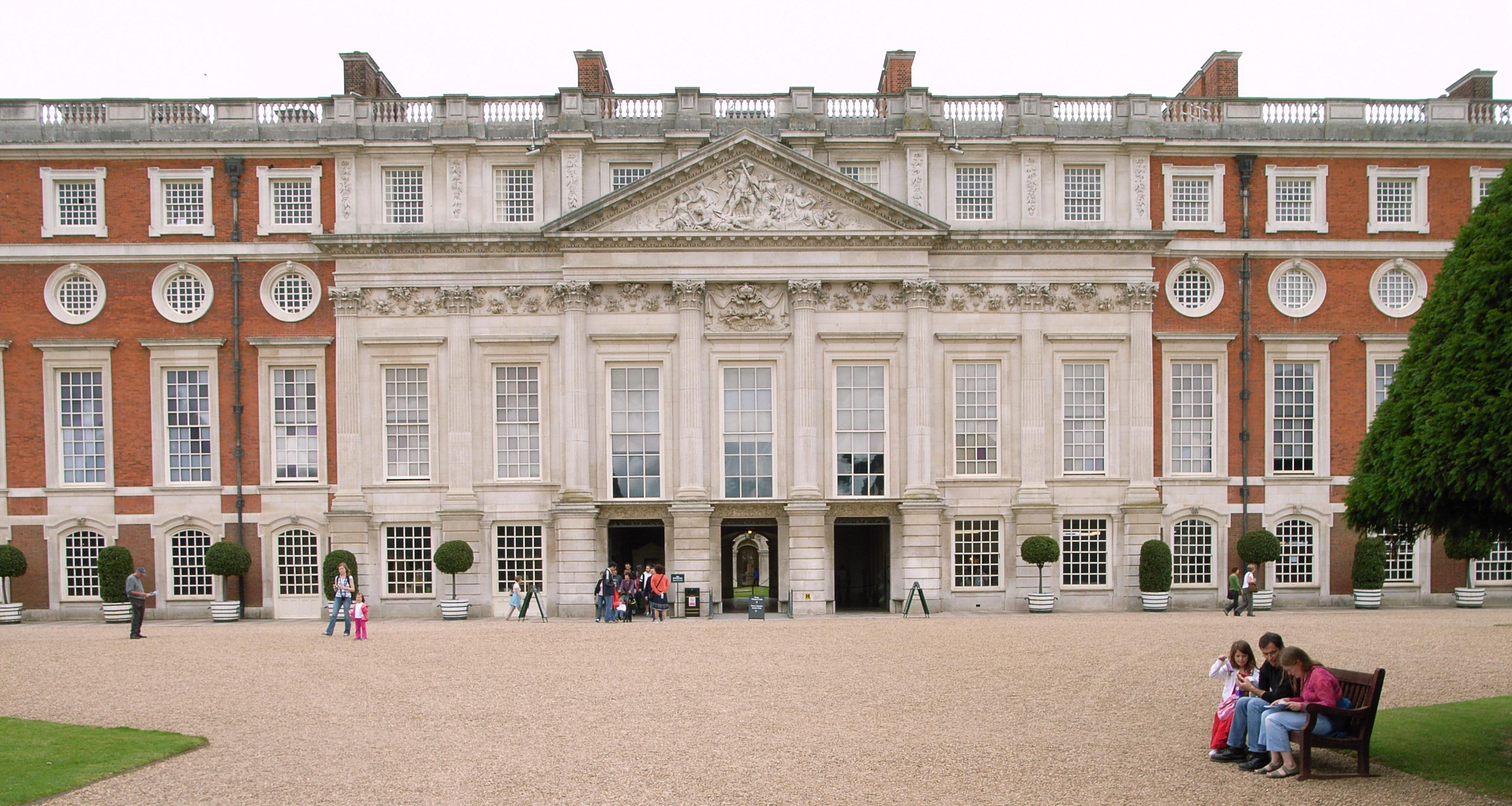 Hampton Court (1689-1702) by Christopher Wren. East front.